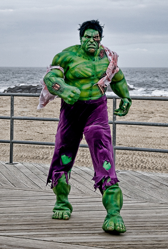 Zombie Hulk on the Boardwalk, Asbury Park NJ